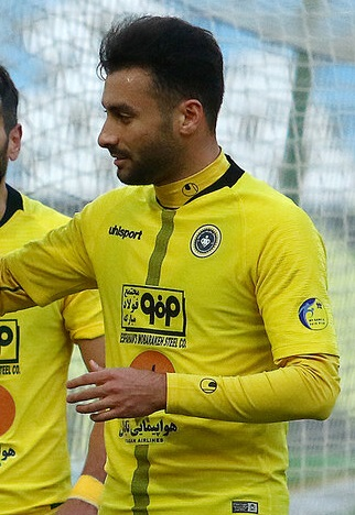 Mohammad Karimi